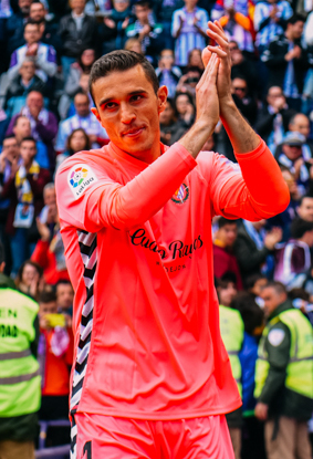 Real Valladolid - Valencia C. F., 38th fixture of the 2018-19 La Liga, May 18, 2019.